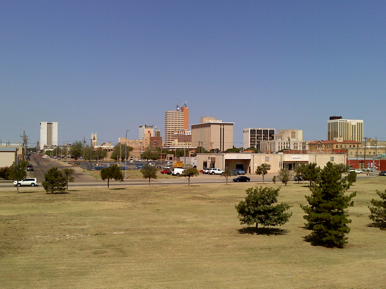 Landscape of the skyline of Lubbock, Texas taken from the shoulder of Interstate 27.